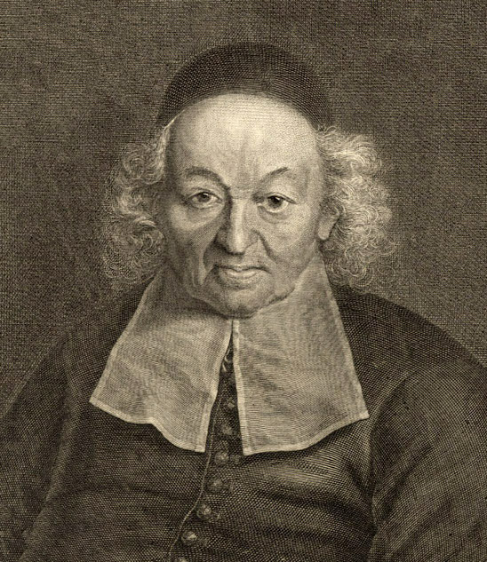 French astronomer Ismaël Boulliau (a.k.a. Ismaël Boullian or Ismaël Bullialdus) (1605-1691)